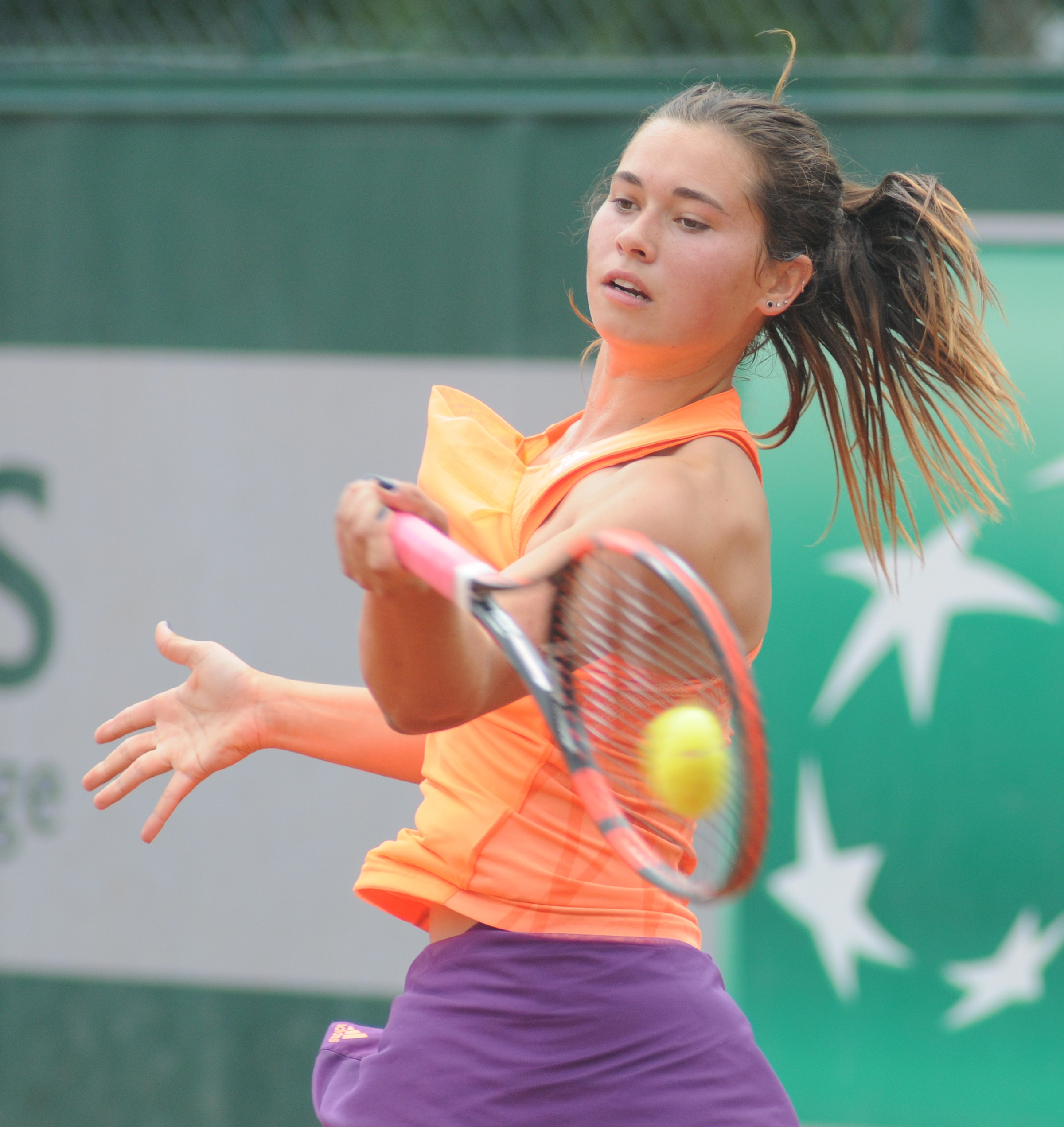 Isabelle Wallace at the 2014 French Open